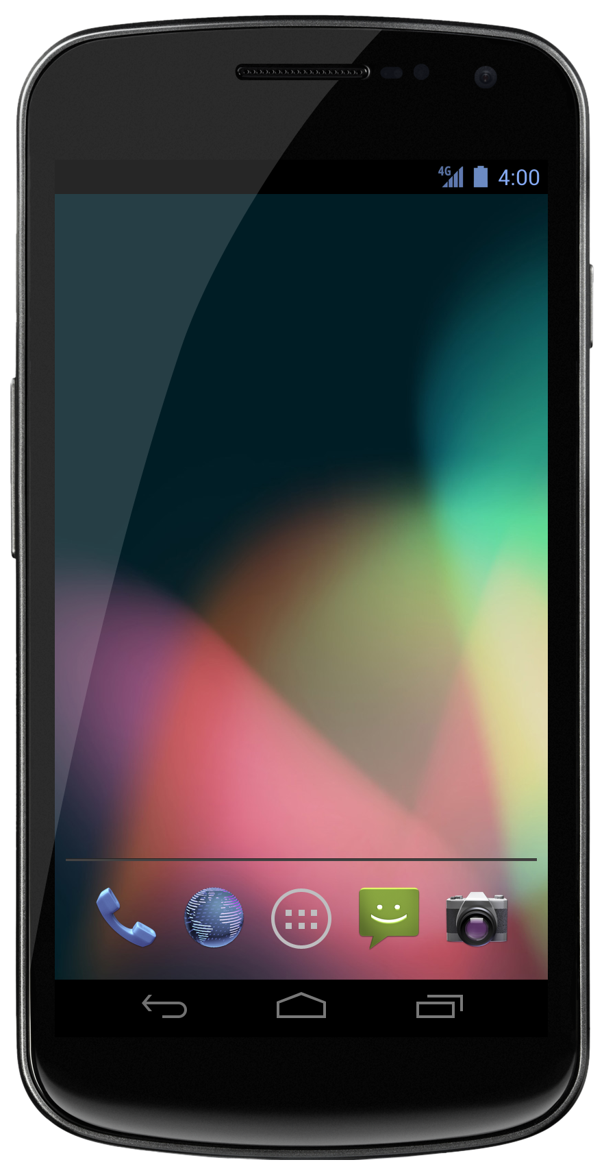 Samsung Galaxy Nexus based on "Samsung Galaxy Nexus .PSD" by slaveoffear on (CC BY-SA 3.0) Wallpaper from Android Open Source Project Made using the GIMP 2.8.2. XCF file available on request.